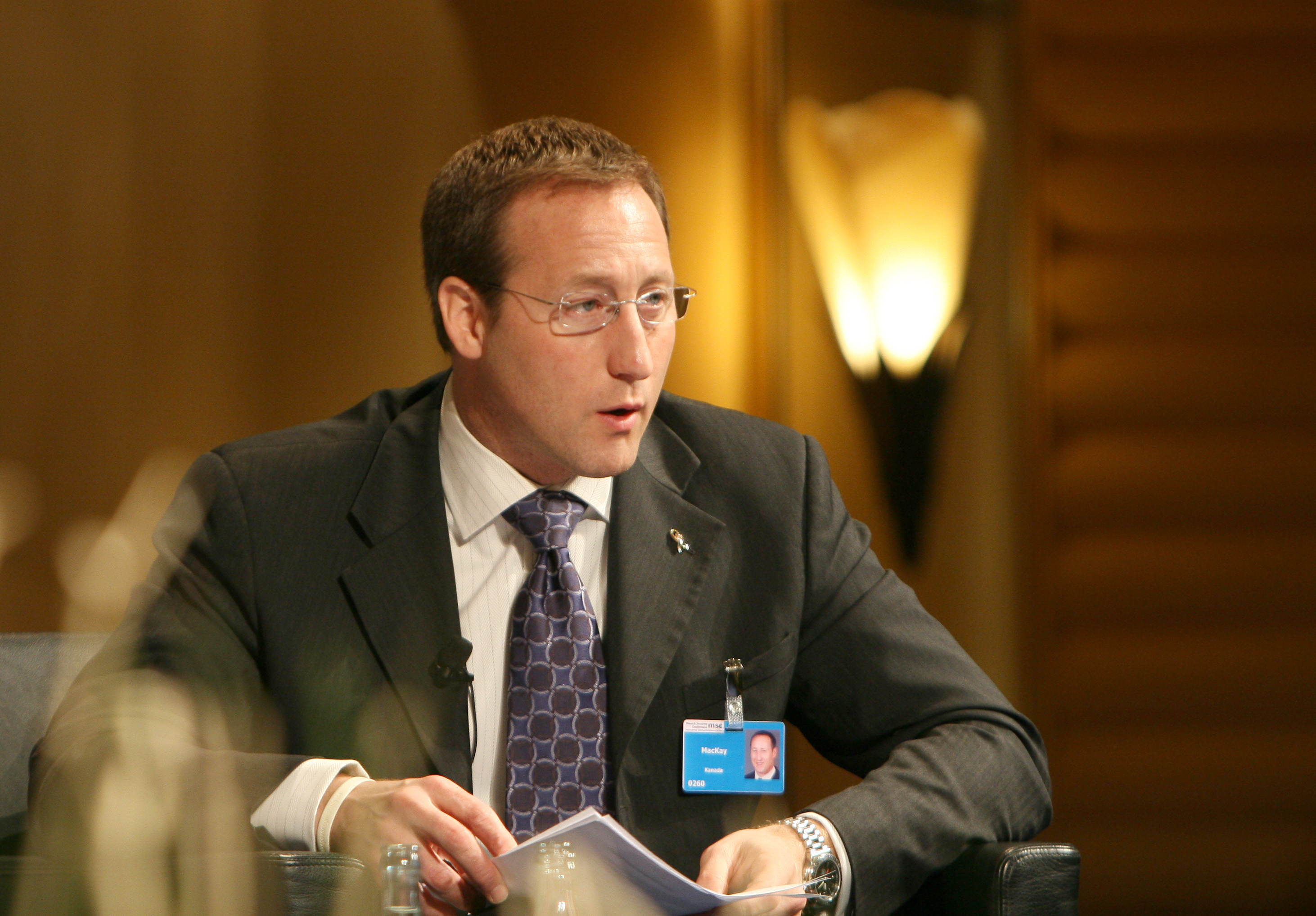 45th Munich Security Conference 2009: Peter Gordon MacKay, Canadian Minister of National Defense.